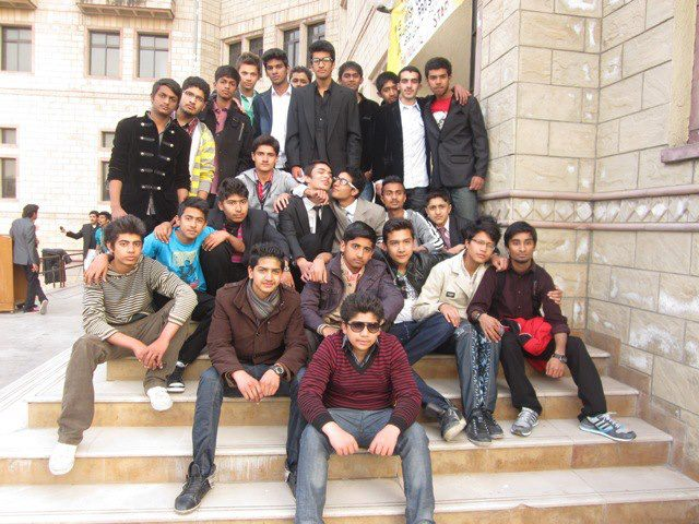 Pakistani college students Rawalpindi